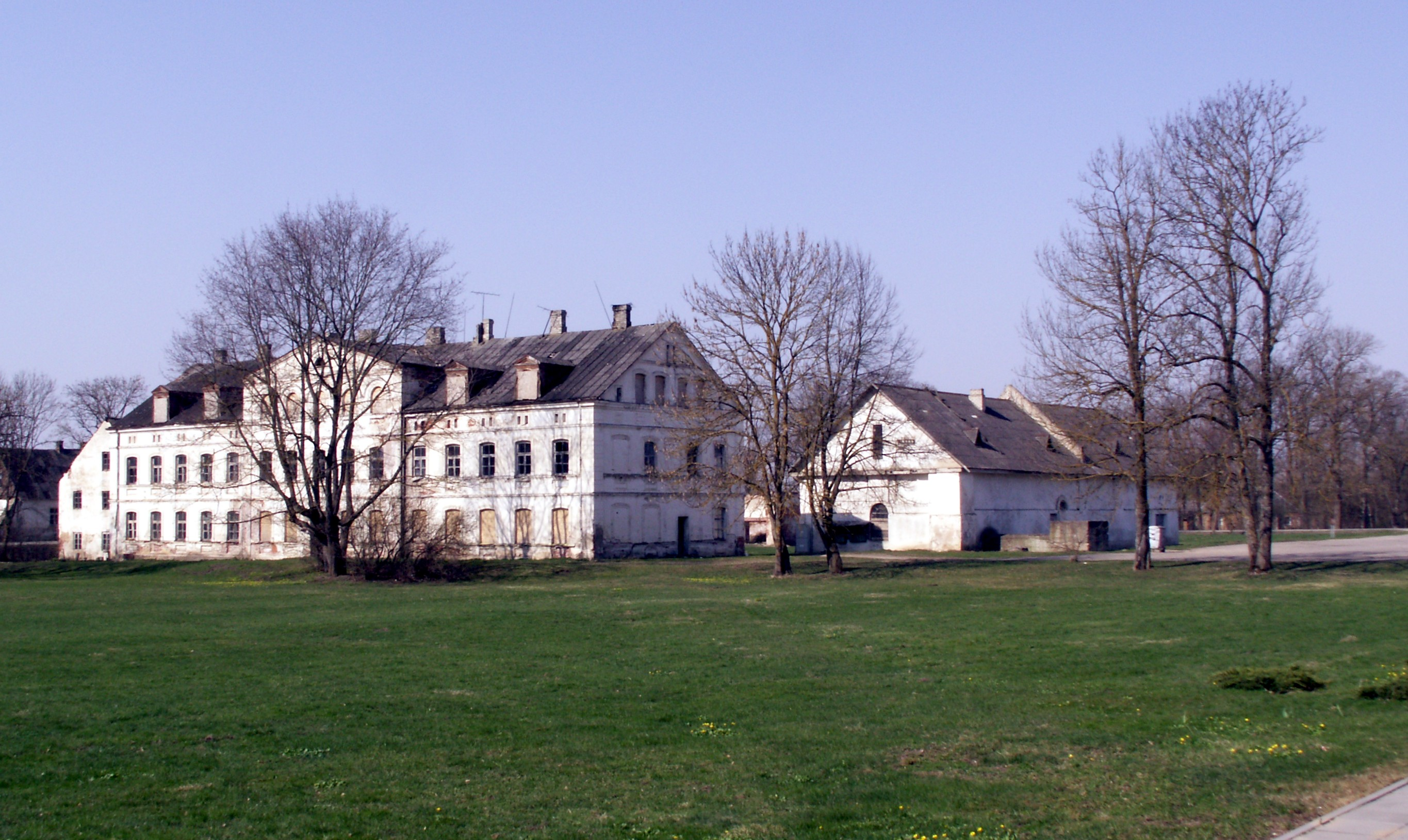 Joniškėlis manor, Lithuania